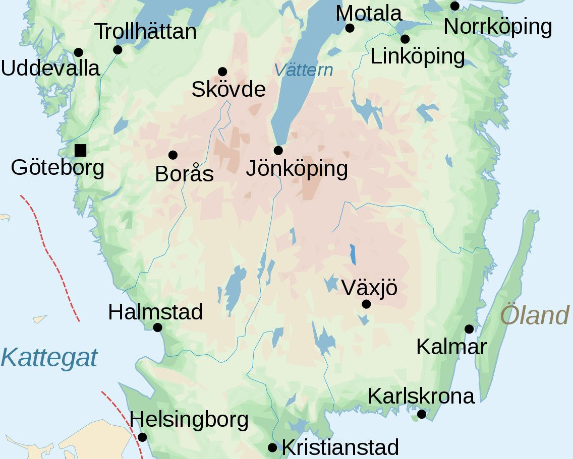 Map of the south swedish highland with cities and the country border to denmark.